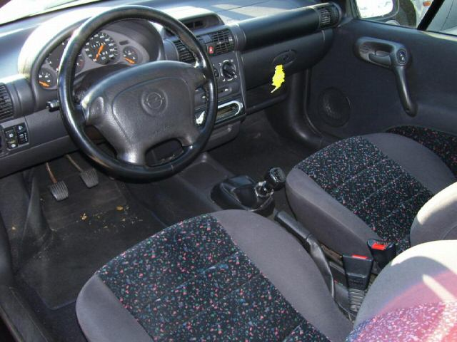 Opel Tigra interior